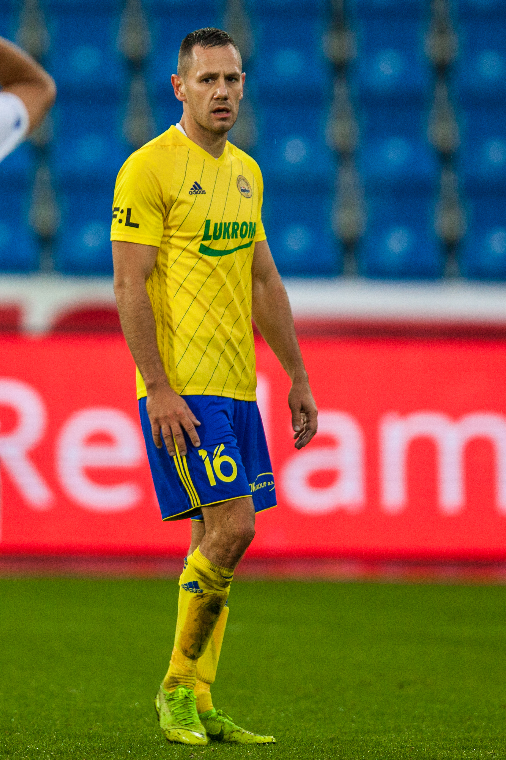 Róbert Matějov in a Czech First League (Fortuna:Liga) match between FC Baník Ostrava and FC Fastav Zlín (4:0), 5 October 2019, Městský stadion Ostrava, Ostrava-Vítkovice, Ostrava-City District, Moravian-Silesian Region, Czechia Personality rights warningAlthough this work is freely licensed or in the public domain, the person(s) shown may have rights that legally restrict certain re-uses unless those depicted consent to such uses. In these cases, a model release or other evidence of consent could protect you from infringement claims.